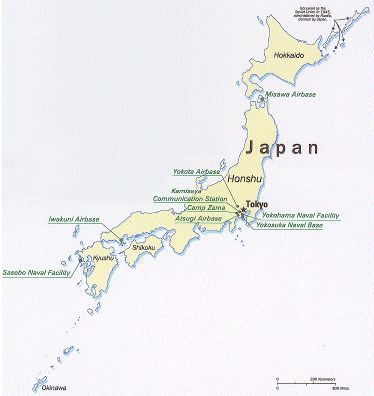 Deployment of U.S. Forces in Japan outside Okinawa.